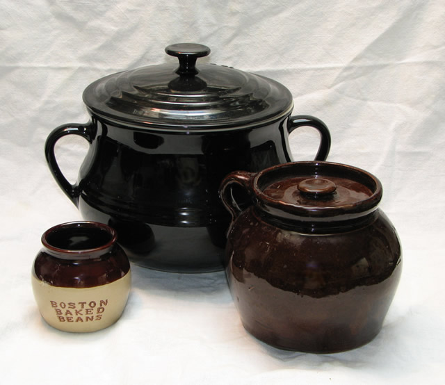 Three ceramic beanpots. The large black pot is made by Le Creuset. The medium brown pot is an antique, but of a form still used by artisan potters in the United States. The small pot, glazed with the letters "Boston Baked Beans," is a souvenir item, not meant for actually cooking.